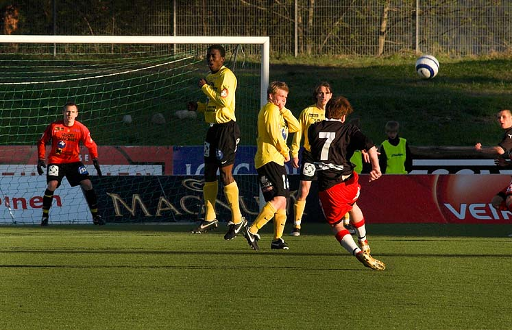 Roope Matsi (in red shirt), a Finnish footballer. He is the first-choice goalkeeper of KuPS Kuopio. From game KuPS - JIPPO of Joensuu at Magnum Areena, Kuopio. Finnish 1st Div (Ykkönen). Game ended 1-1.